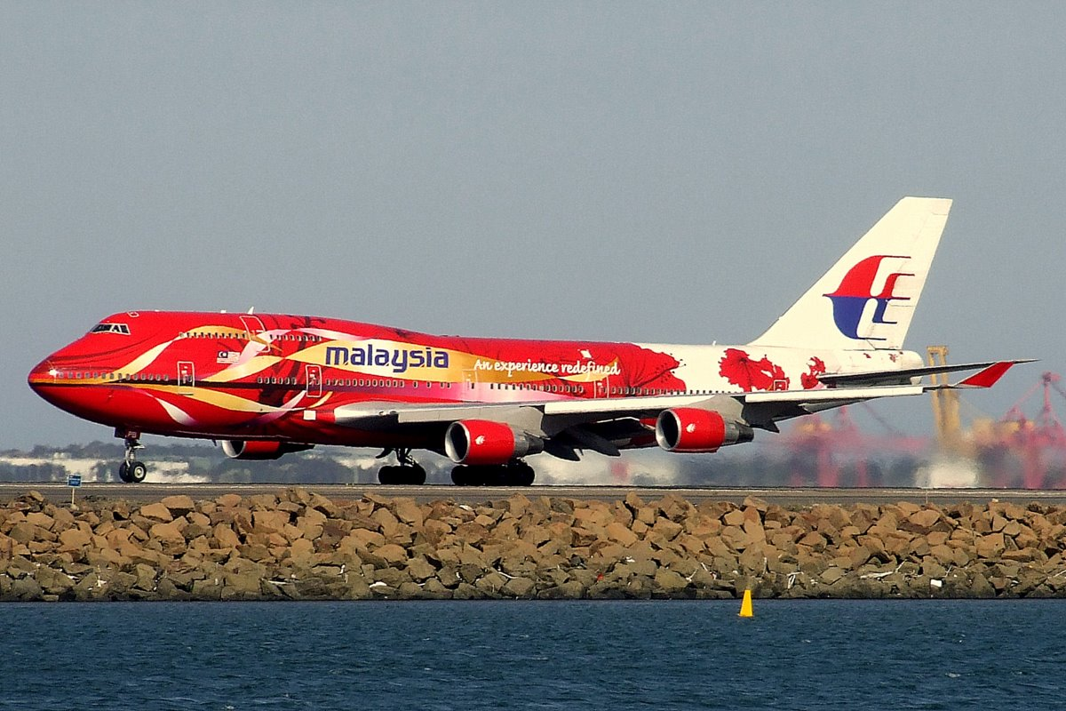 Boeing 747-400 9M-MPB of Malaysia Airlines in the special "Hibiscus" livery, taking off from Runway 34L at Sydney airport.